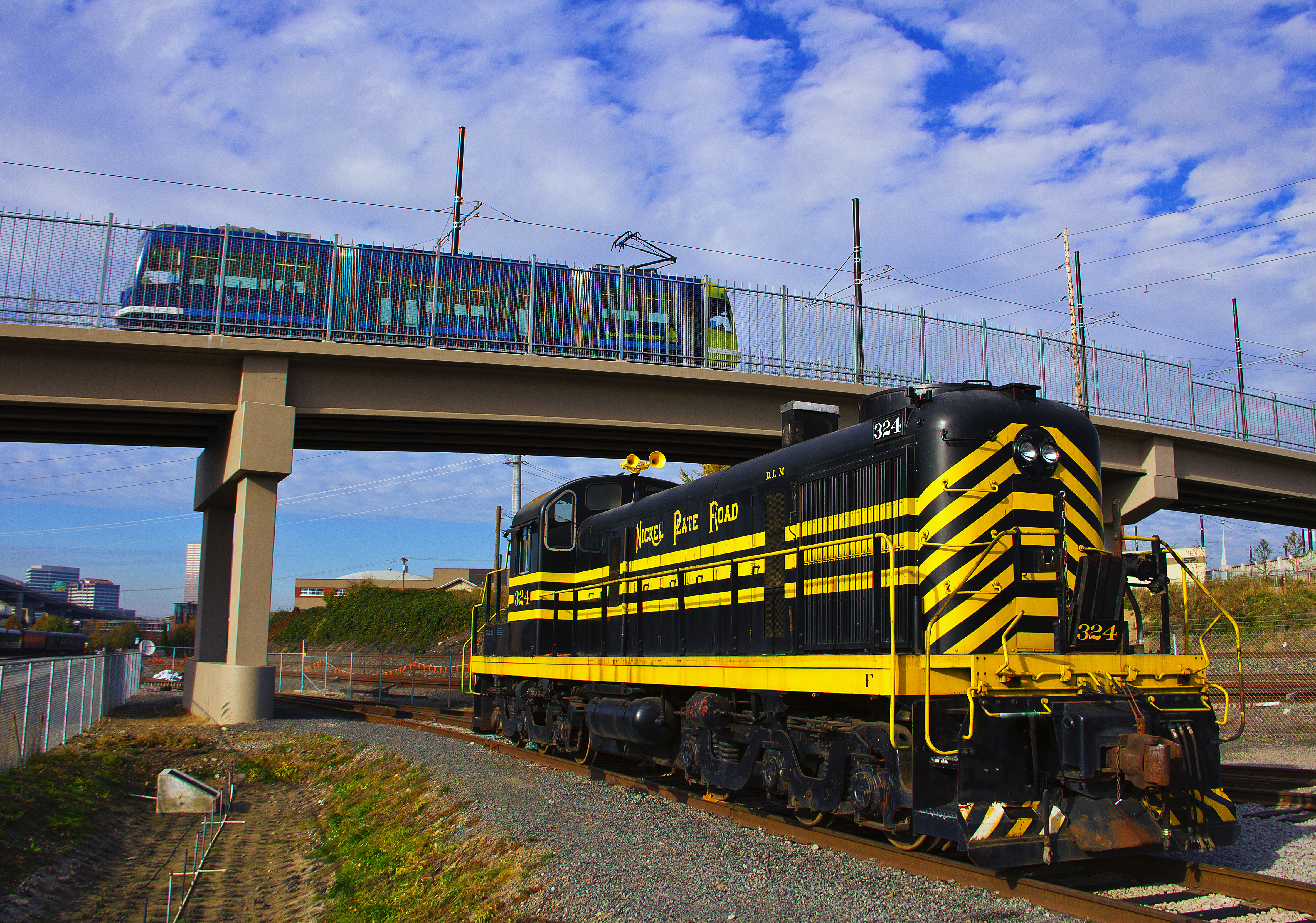 Oregon Rail Heritage Center Portland Oregon